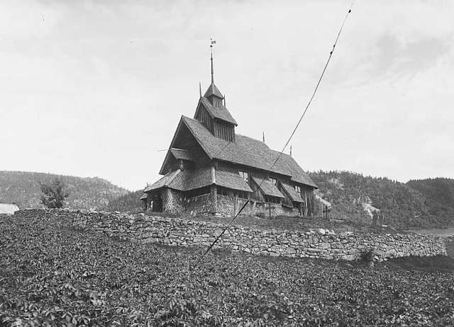 Eidsborg stavkyrkje (Eidsborg stave church, Tokke kommune, Telemark fylke, Norway.) There is some uncertainty to if the picture really is of Eidsborg stave church, see the Galleri Nor website. Picture taken 1880's- 1890's.